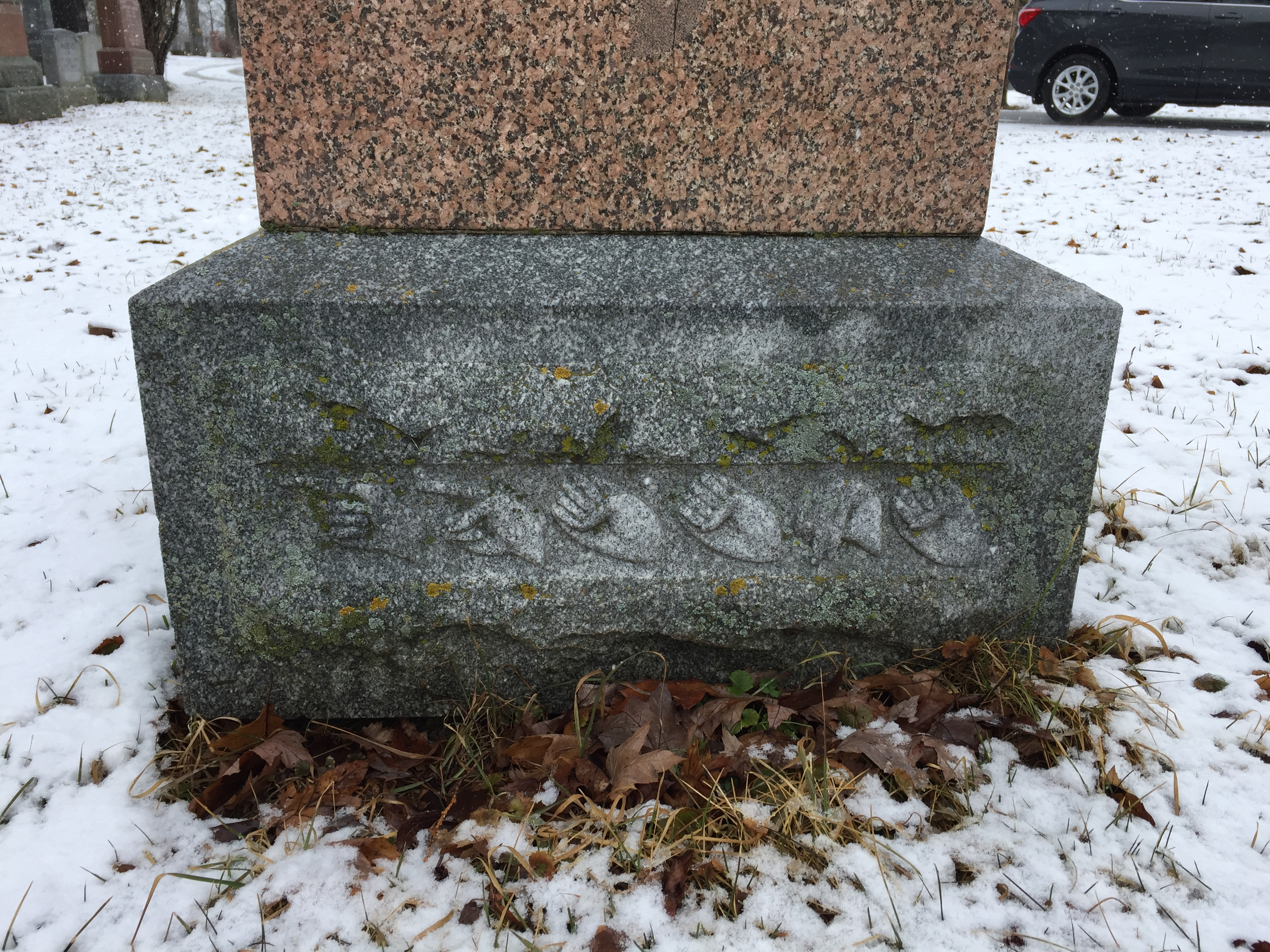 The finger-spelled surname of Greene